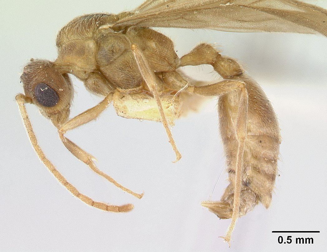 Profile view of ant Allomerus vogeli specimen casent0178480.